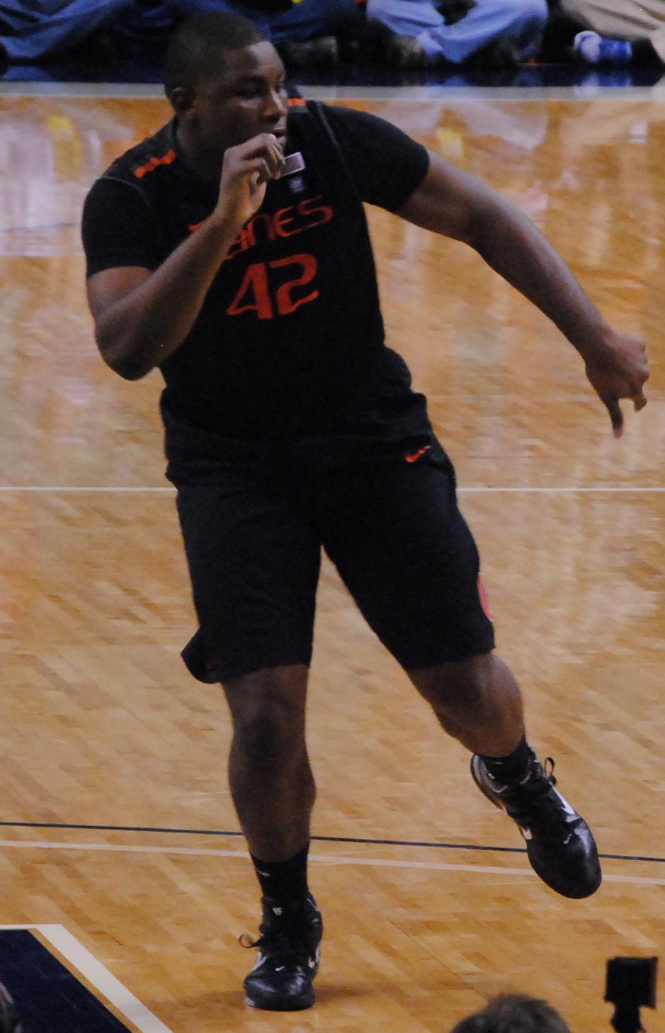 UVa's Sammy Zeglinski vs. Miami